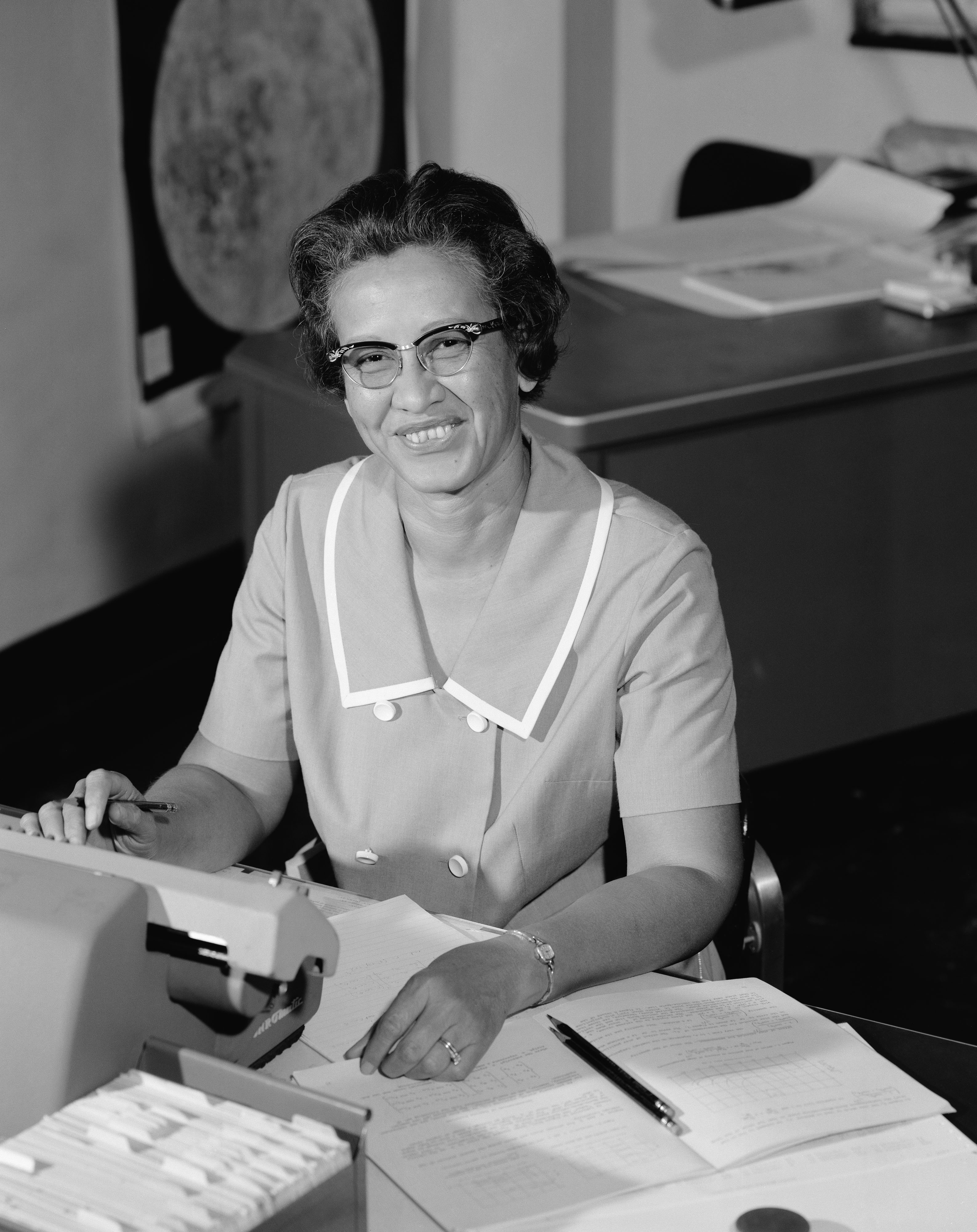 Katherine Johnson, NASA employée, mathematician and physicist, in 1966